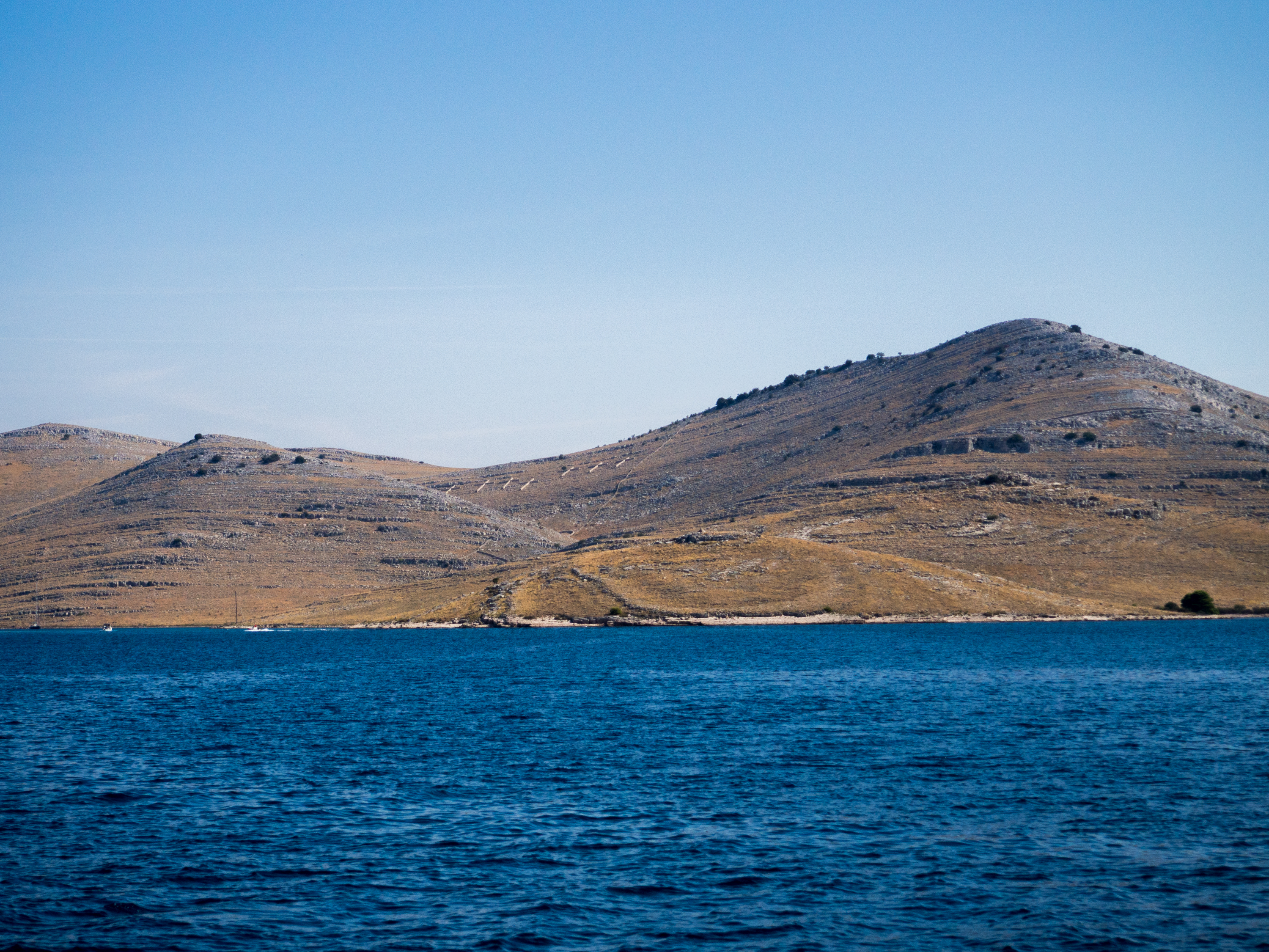 Island of Kornat the site of the Kornati tragedy of August 30th, 2007.